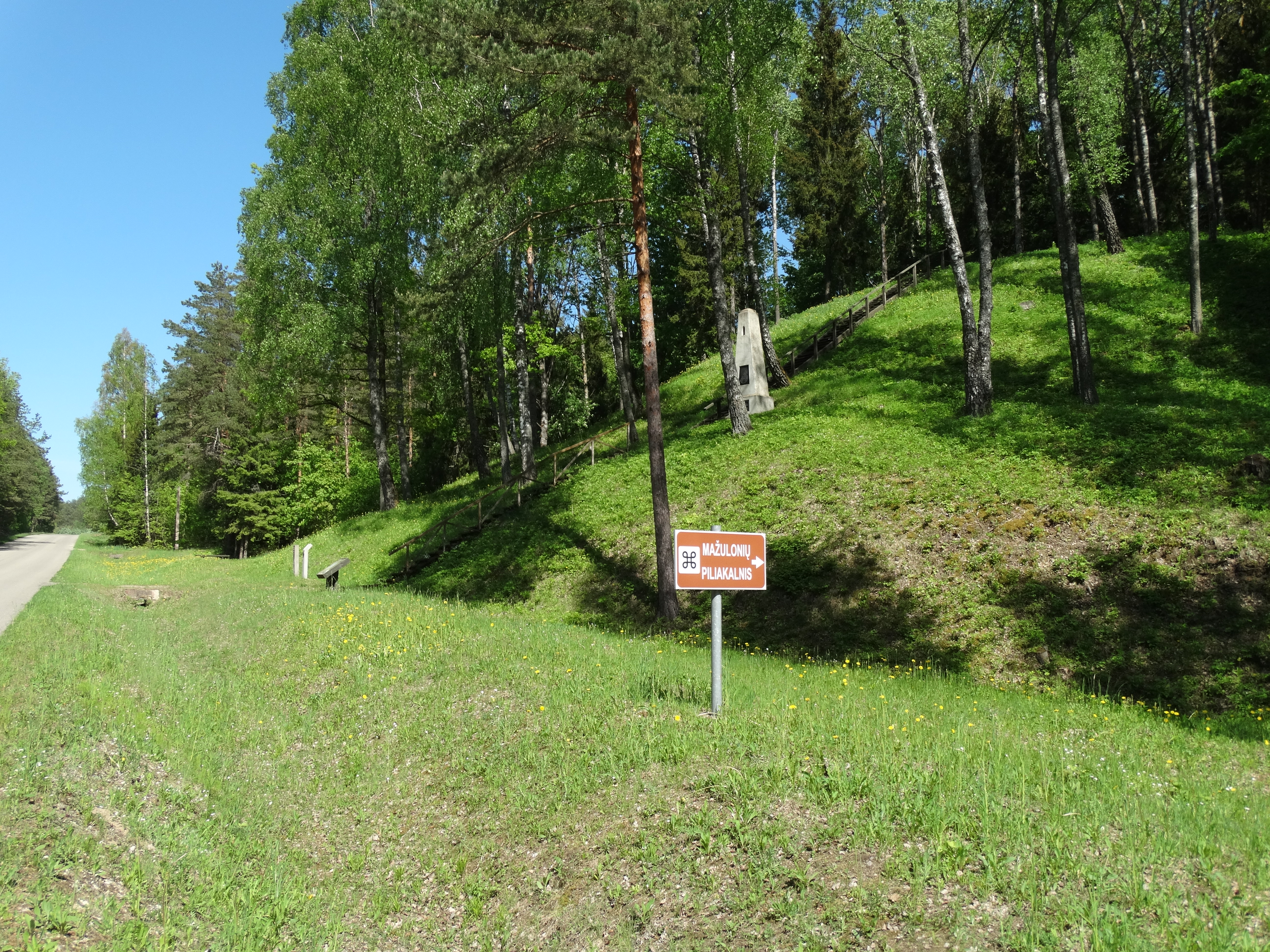 Hillfort, Mažulonys, Ignalina district, Lithuania